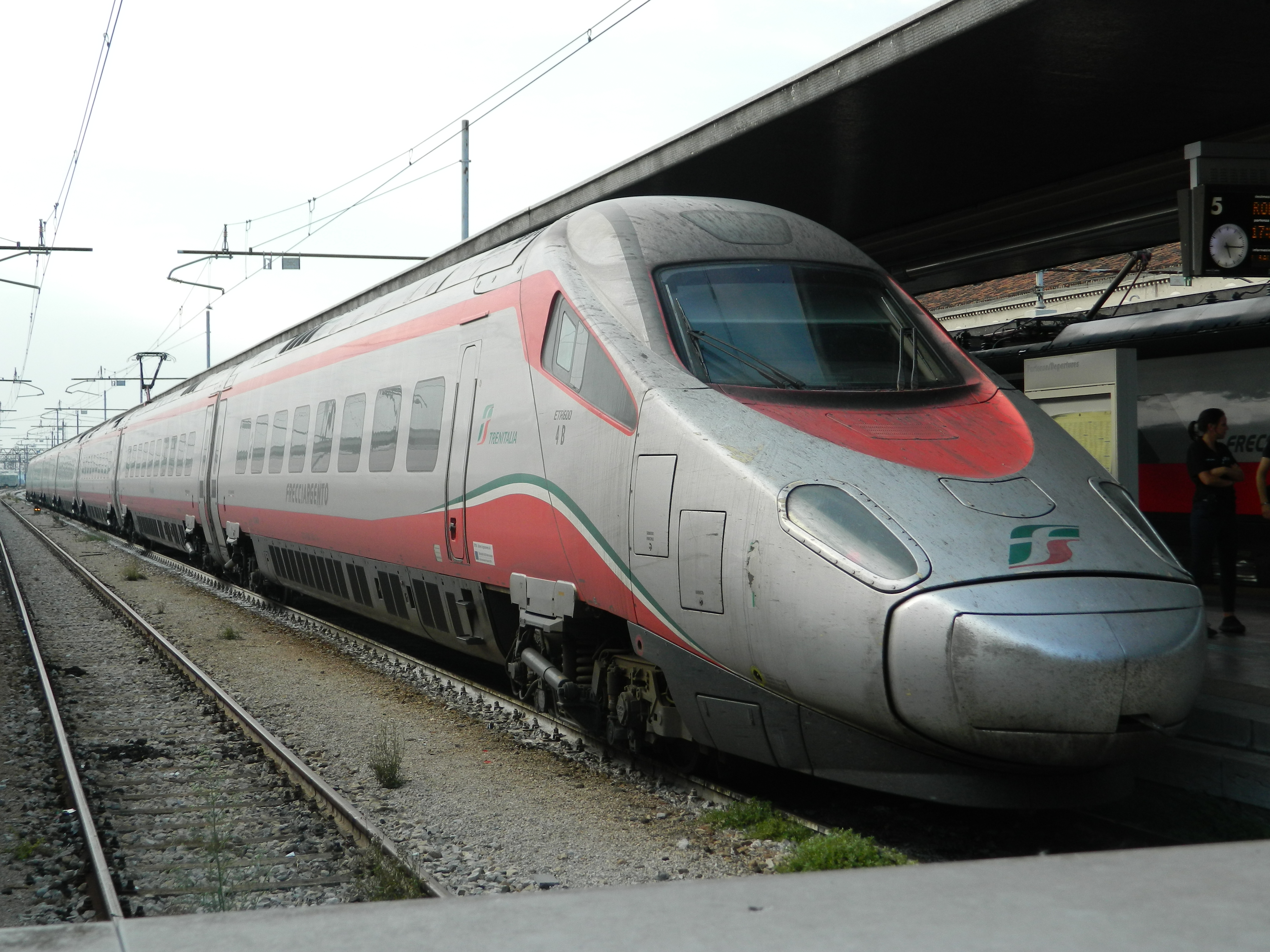 A high-speed Italian Alstom Pendolino train at Venezia San Lucia. This trian is in Trenitalia's Frecciargento (Silver Arrow) livery, and is used on both classic and high-speed lines between Italy's major and secondary destinations.